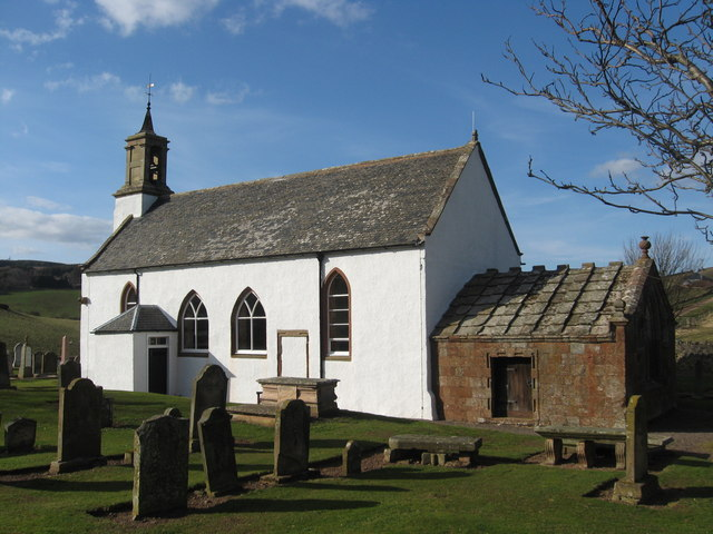 Oldhamstocks Kirk The church at Oldhamstocks dates from pre-Reformation times and was further improved in 1730. Thomas Hepburn, the minister, built a burial aisle on to the east end of the church for himself and his wife Margaret Sinclair in 1581. Arms carved into the gable clearly show the initials 'TH' and 'MS' and the date.